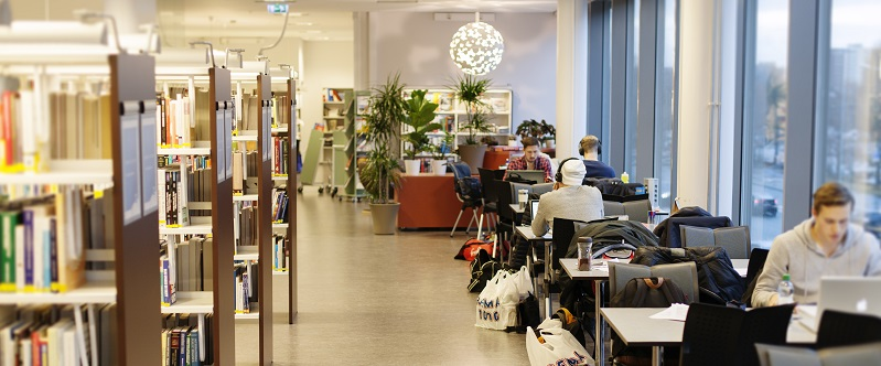 The interior of one the newest of the NTNU University libraries, The Norwegian Business School at Elgeseter in Trondheim, Norway